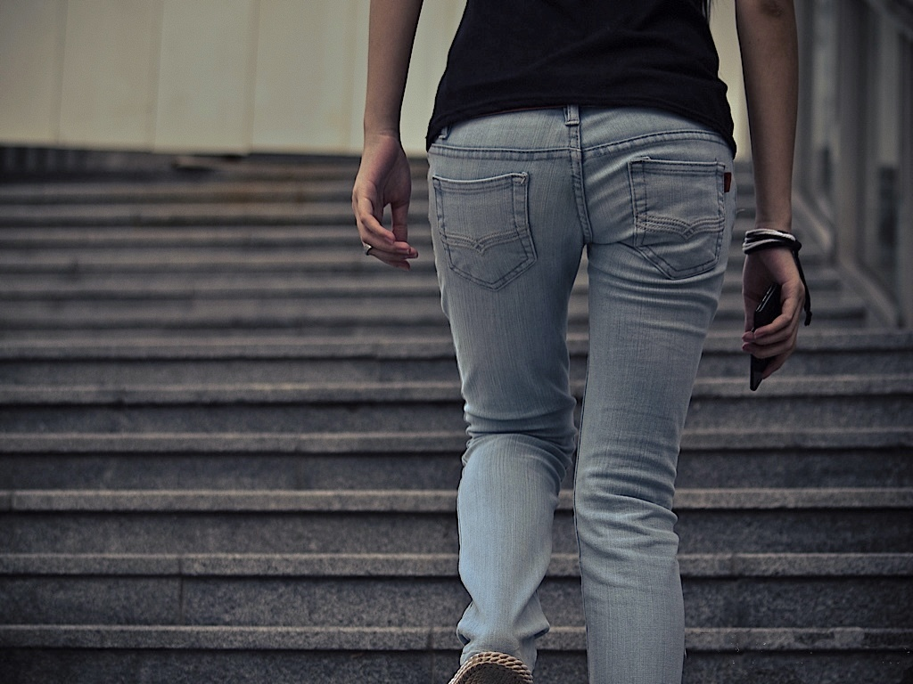 A woman wearing jeans